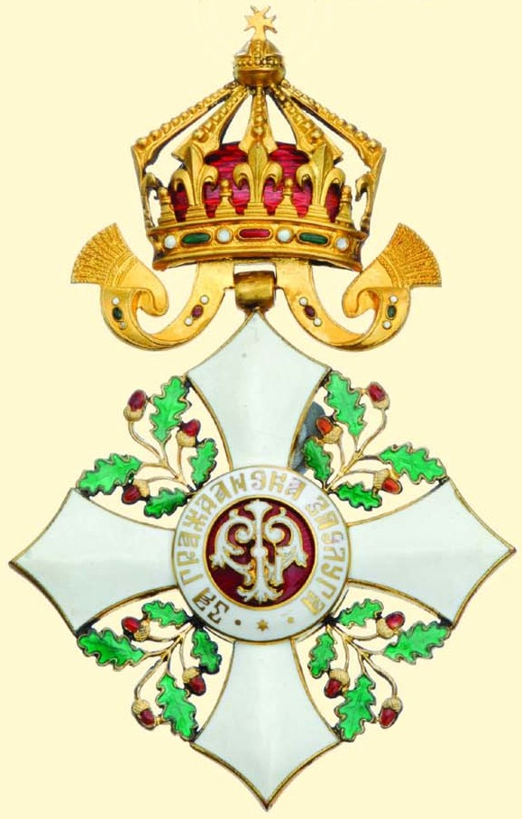 Bulgaria Order of Civil Merit